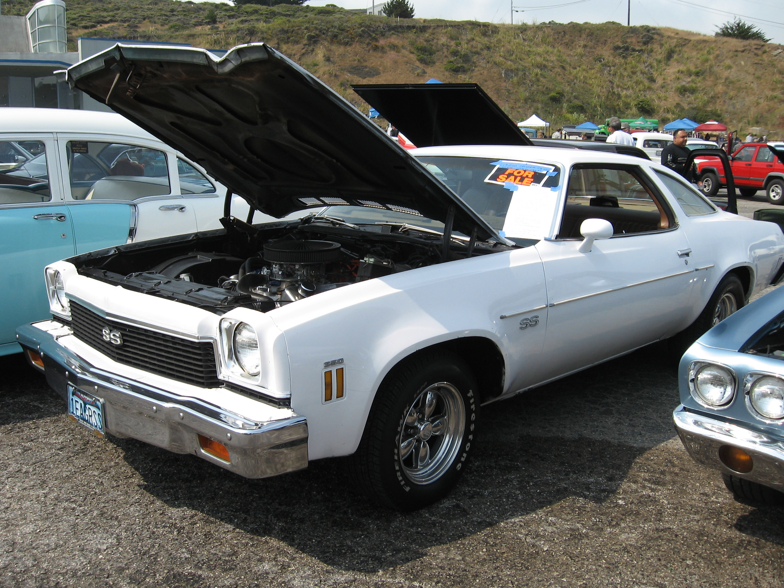 A 1973 Chevrolet Chevelle SS